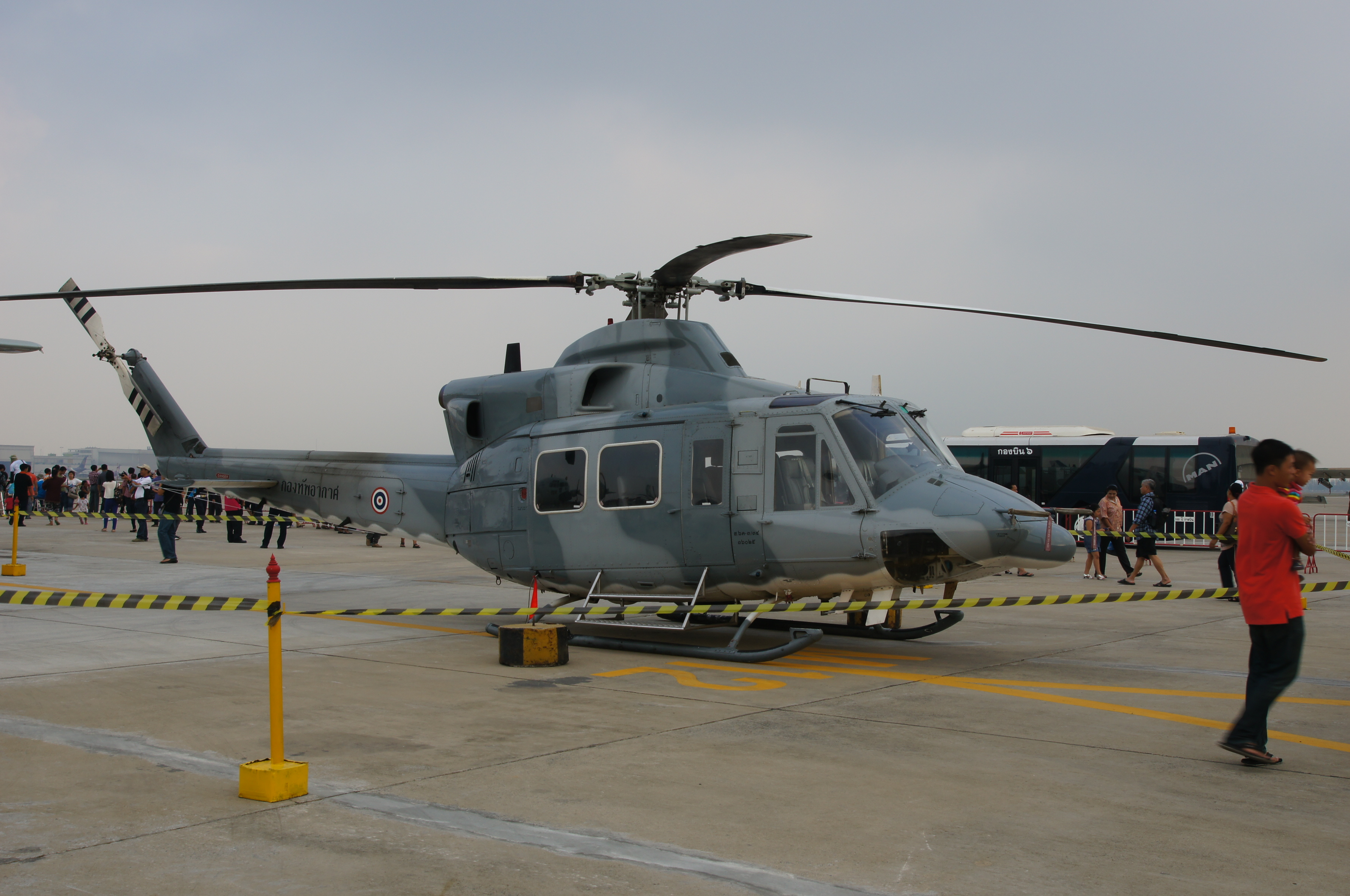 Bell 412 of the Royal Thai Air Force in 2013